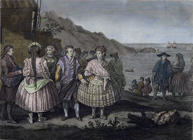 Costume of the inhabitants of Chili [i.e. Chile].